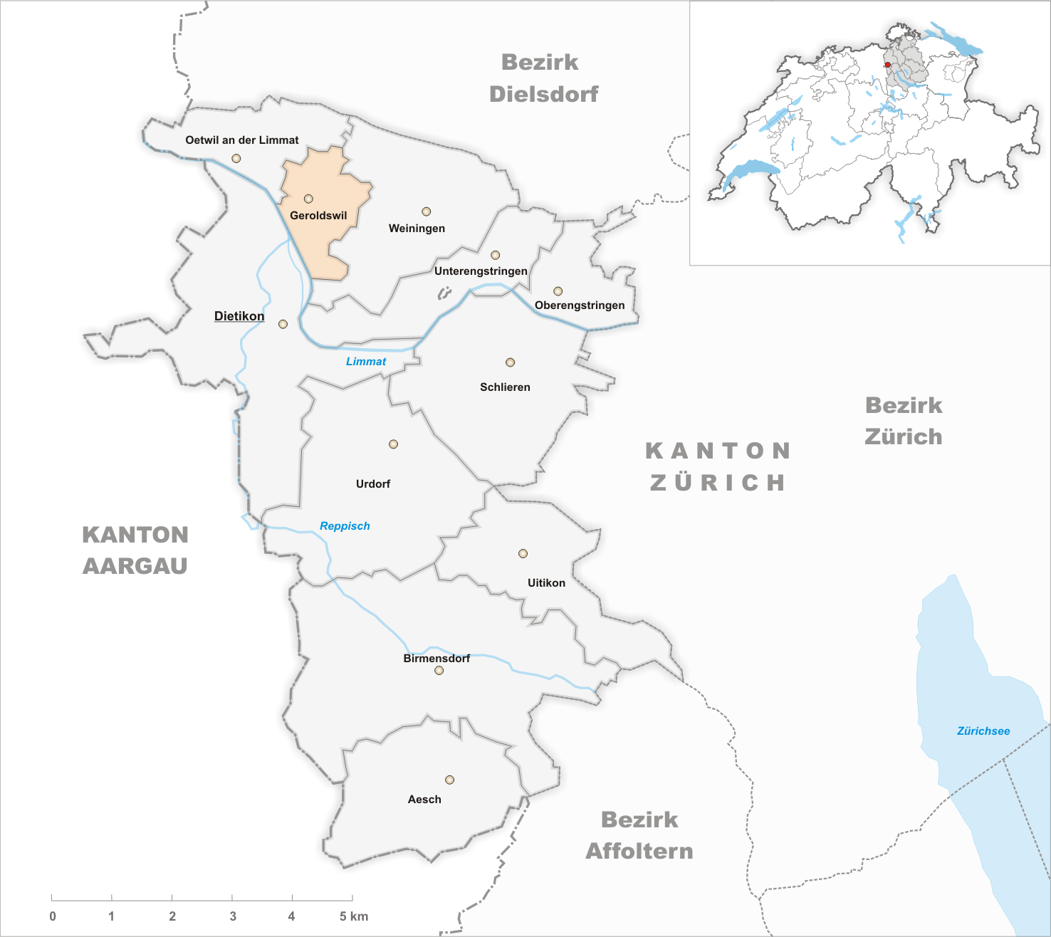 Municipality Geroldswil